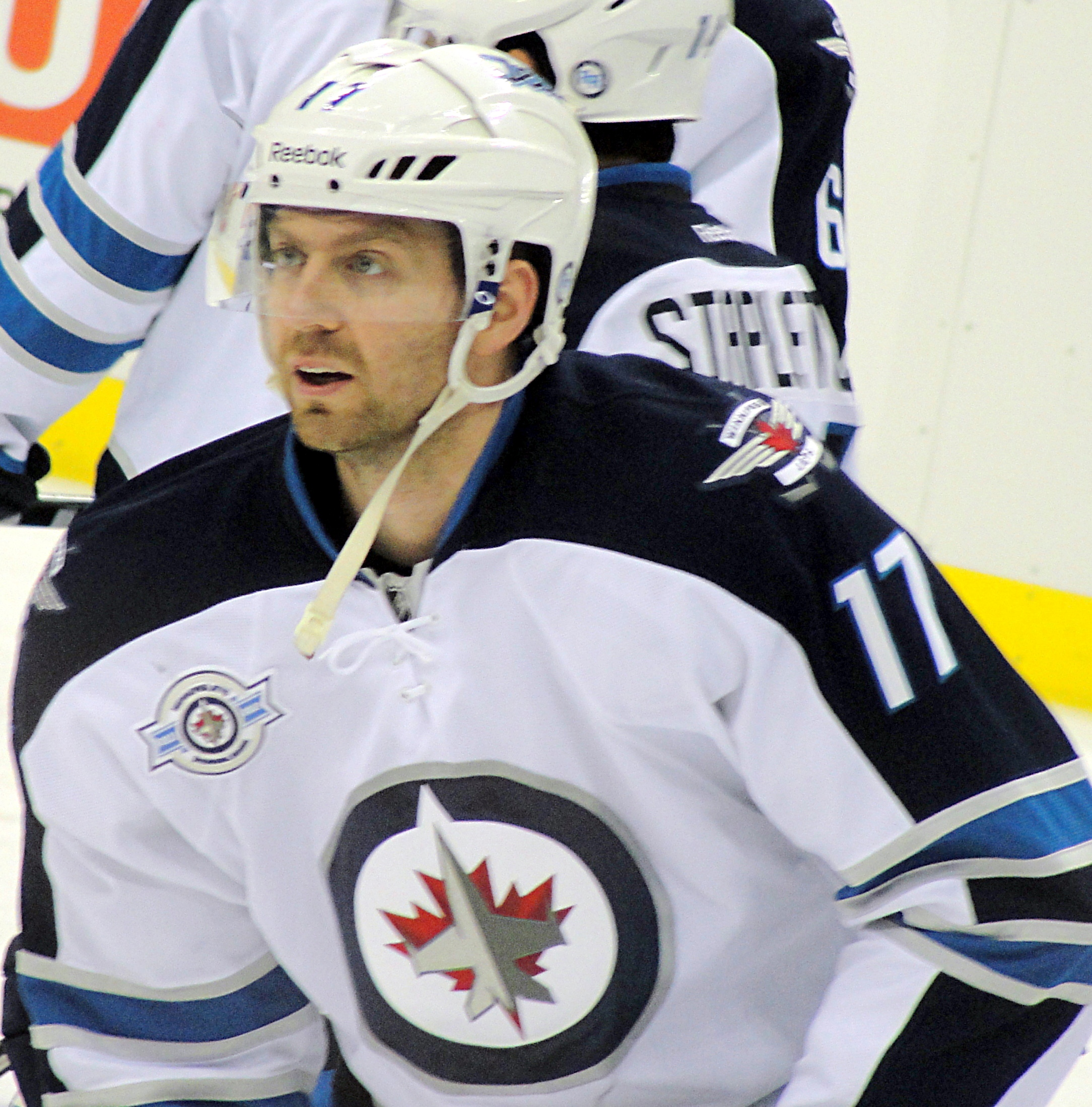 Eric Fehr of the Winnepeg Jets during a game against the Pittsburgh Penguins, February 11, 2012 at Consol Energy Center in Pittsburgh, PA.